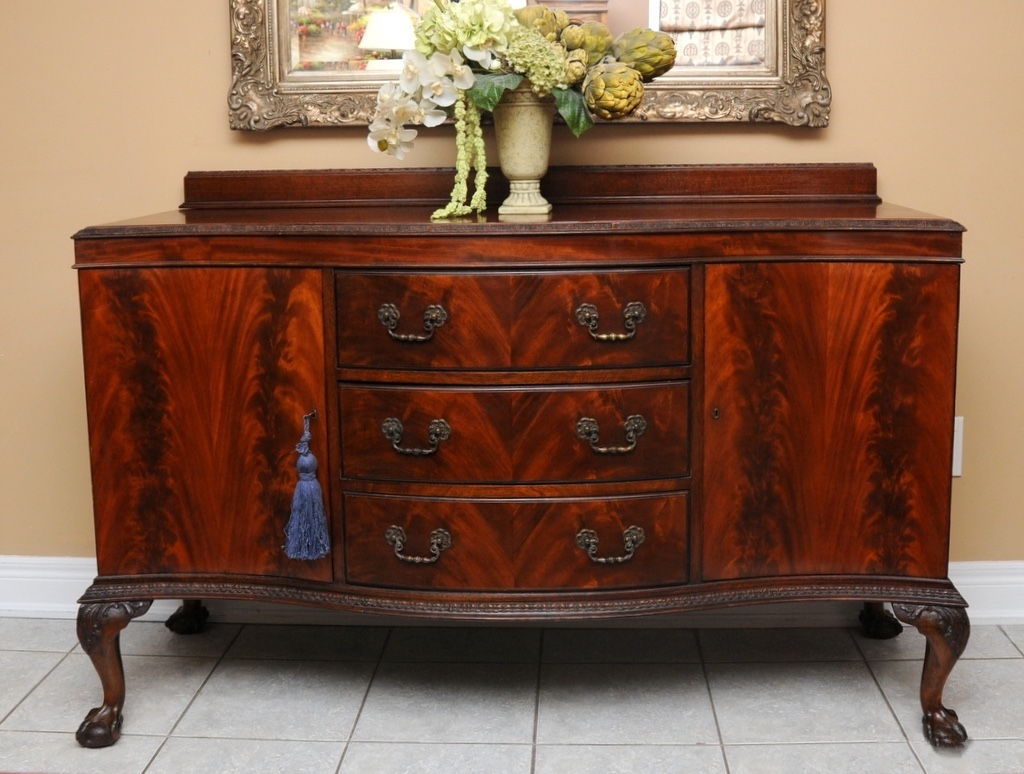 Chippendale Buffet Sideboard